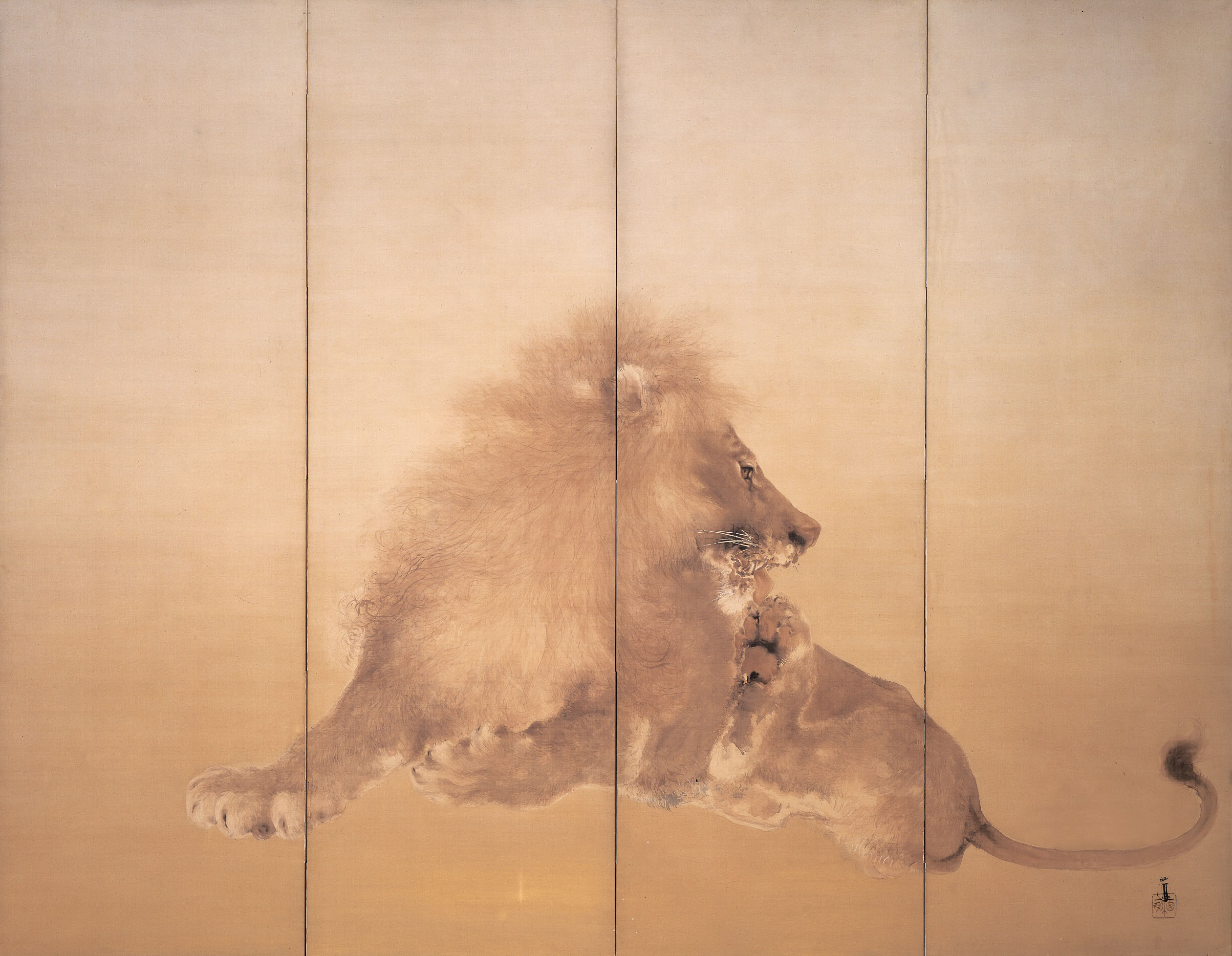 Golden Lion. Ink on gold-leafed paper. (166.3 x 372.6 cm each). Yamatane Museum of Art